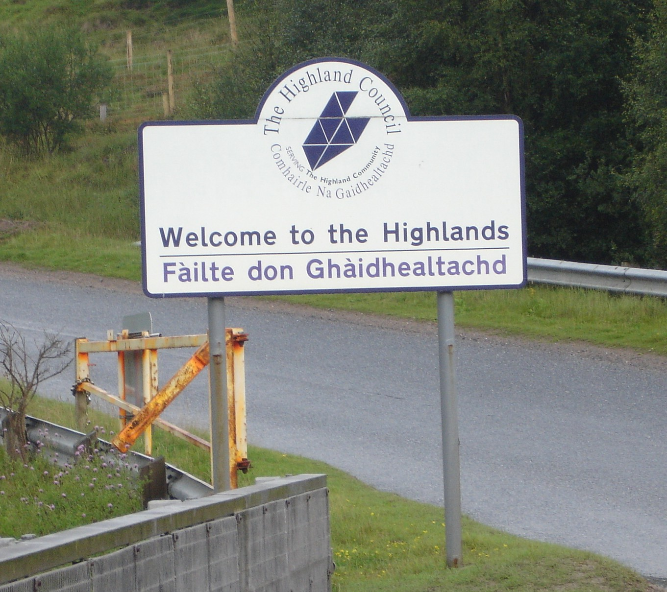 Own Work Aug 2006, Cropped Image